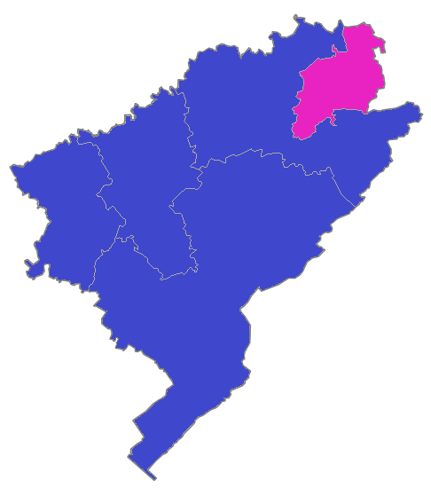 French legislative election in Doubs, 2007